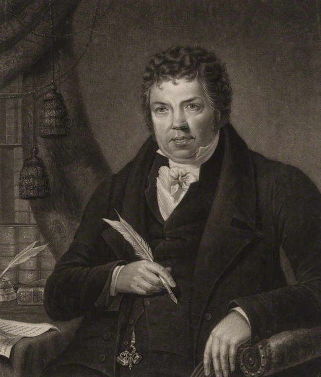 Portrait of William McGavin (1773–1832), Scottish businessman and religious controversialist.